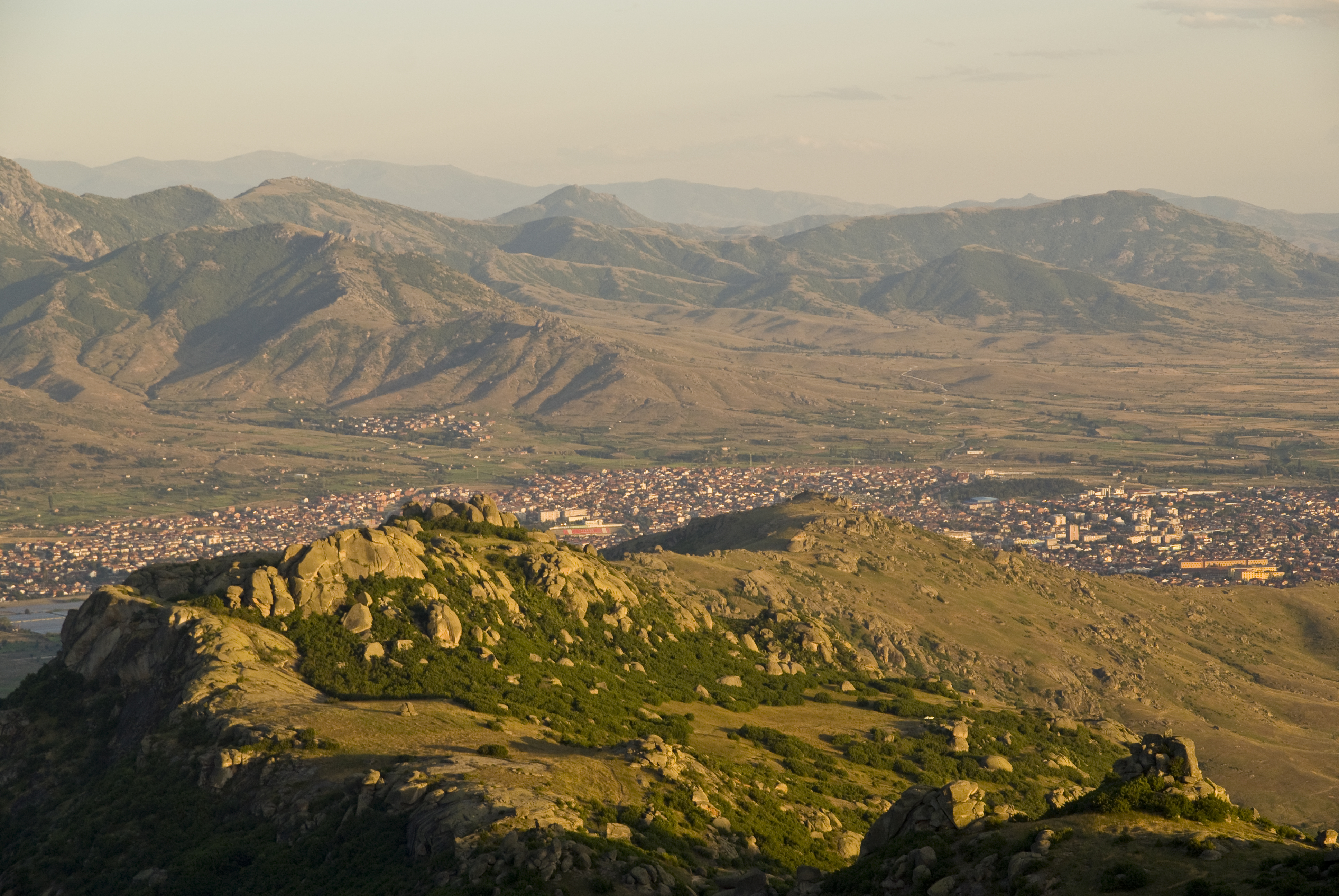 Town of Prilep in the distance. Macedonia